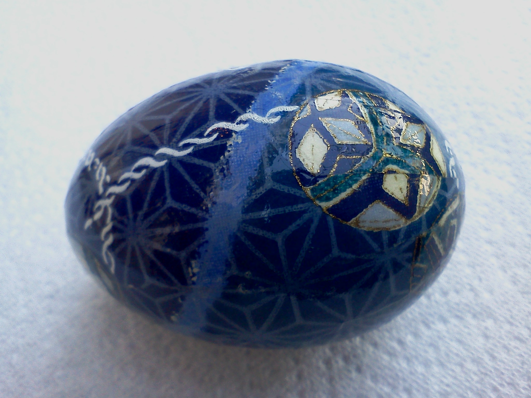 A blue washi egg that was created by my co-worker's wife using the technique she learned while they were deployed in Japan.